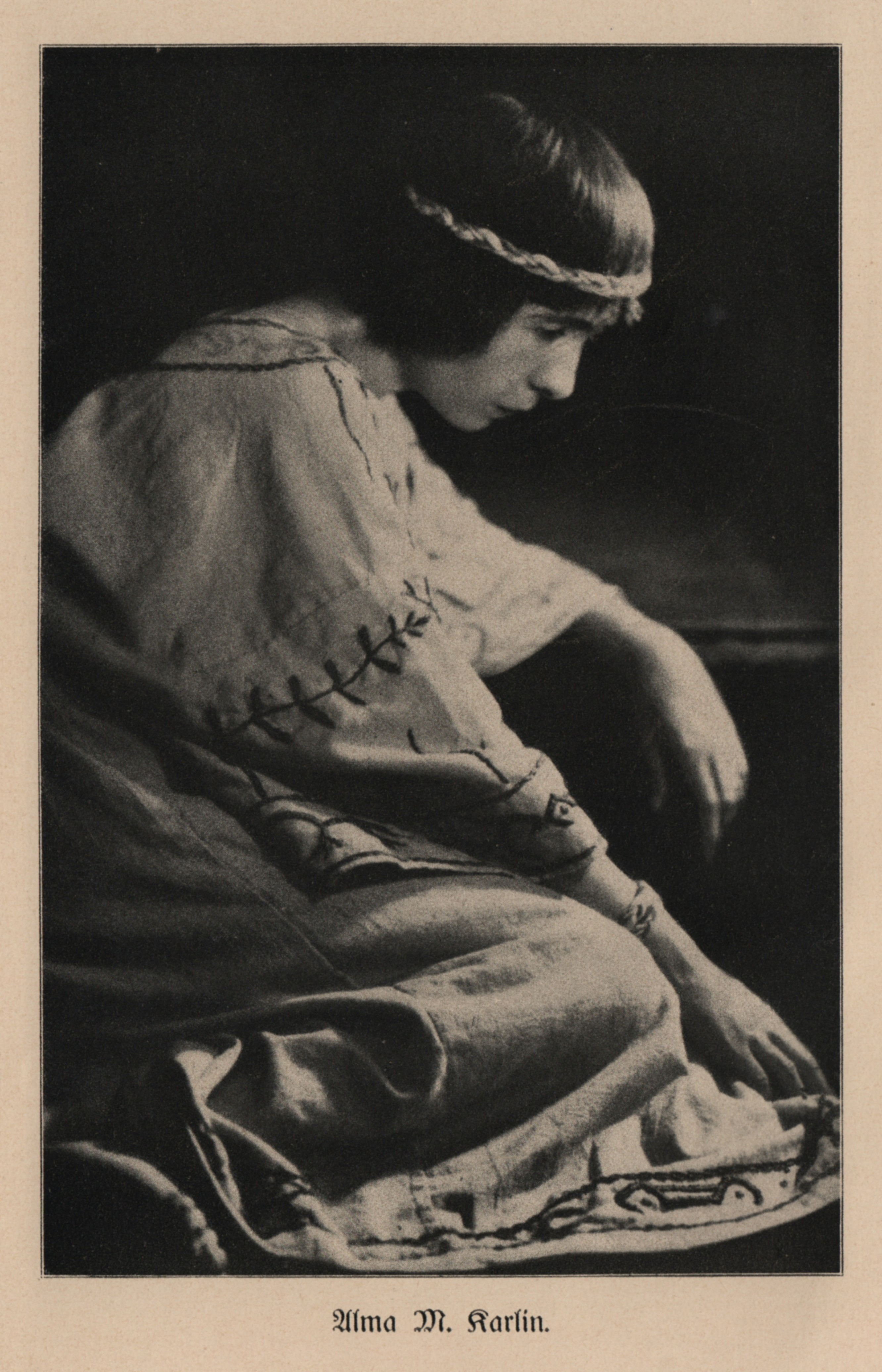 Alma Karlin (1889-1950) in her book "Einsame Weltreise"